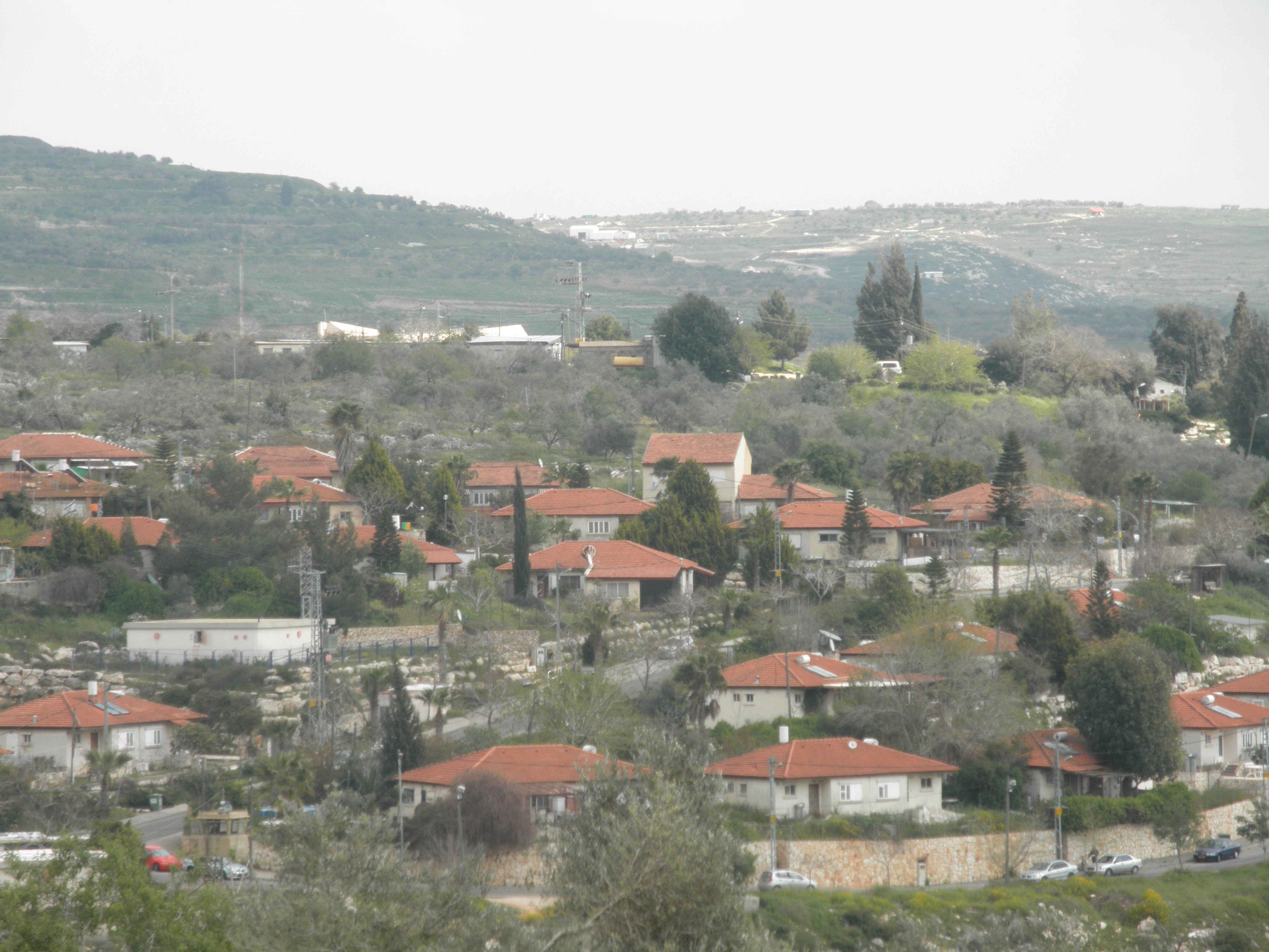 Kedumim, March 2012